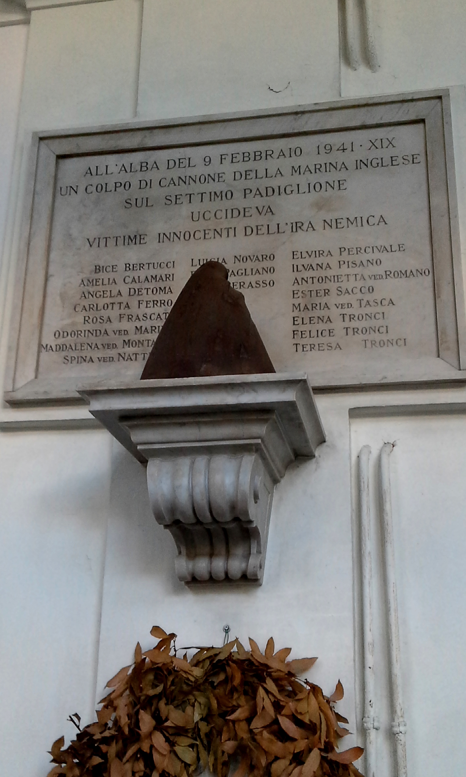 Exploded 15.0 inch shell fired by British battleship HMS Malaya on the Galliera Hospital, during the bombing of Genoa called "Operation Grog", on February 9th, 1941.